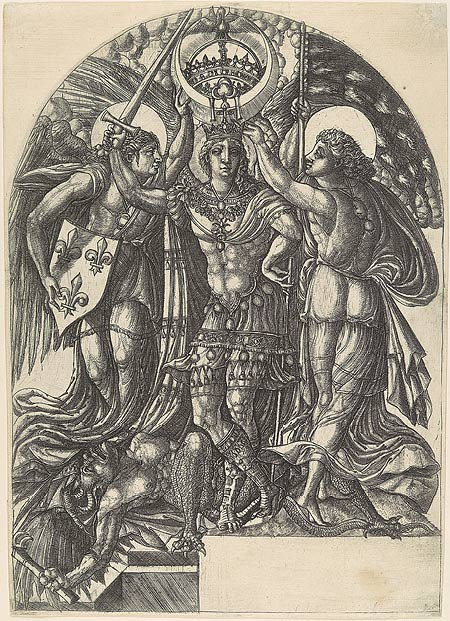 Henry II Between France and Fame, ca. 1548 Jean Duvet (French, 1485–ca. 1561) Etching; 11 5/8 x 8 1/4 in. (29.5 x 21 cm)